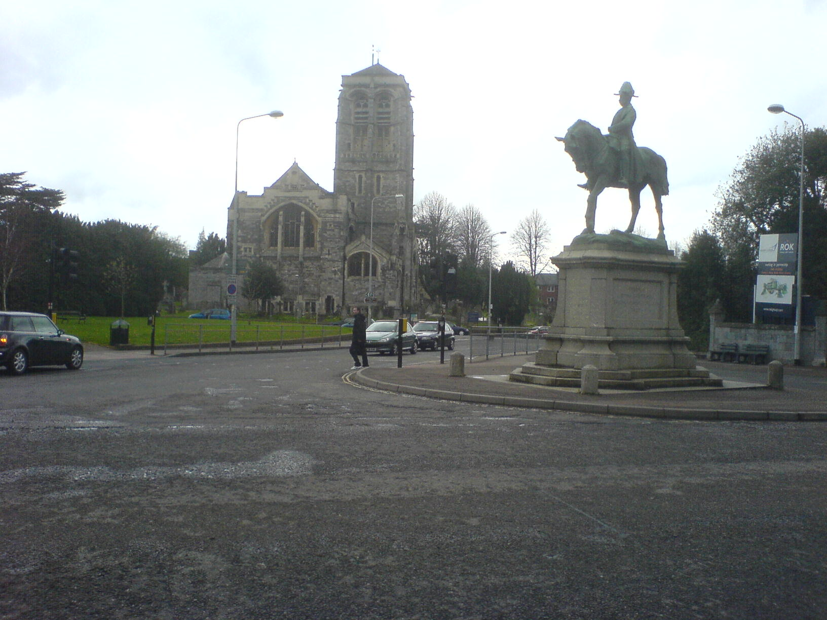 St David's Church in Exeter, behind the statue of Redvers Buller.